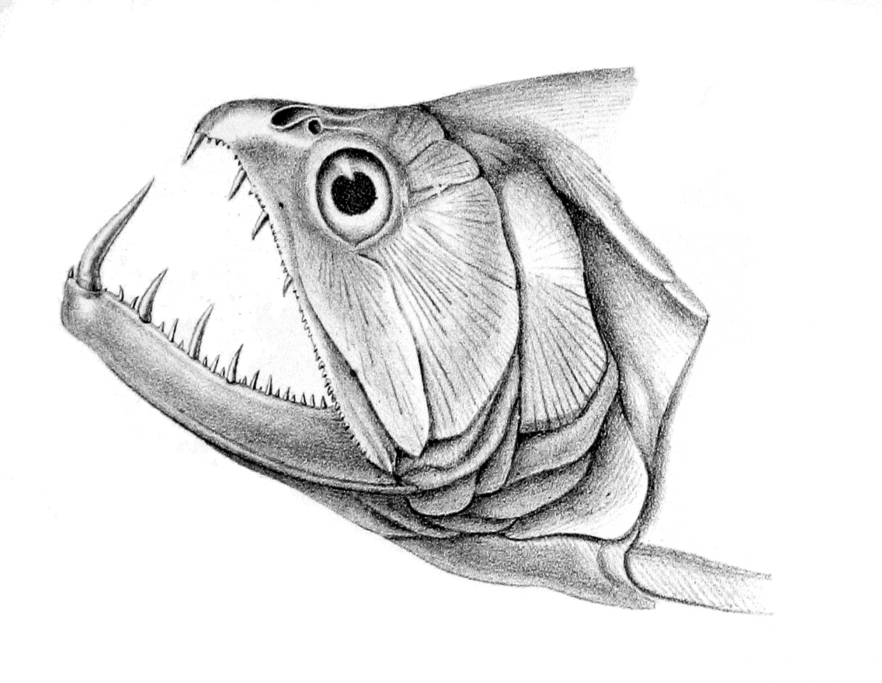 Hydrolycus scomberoides